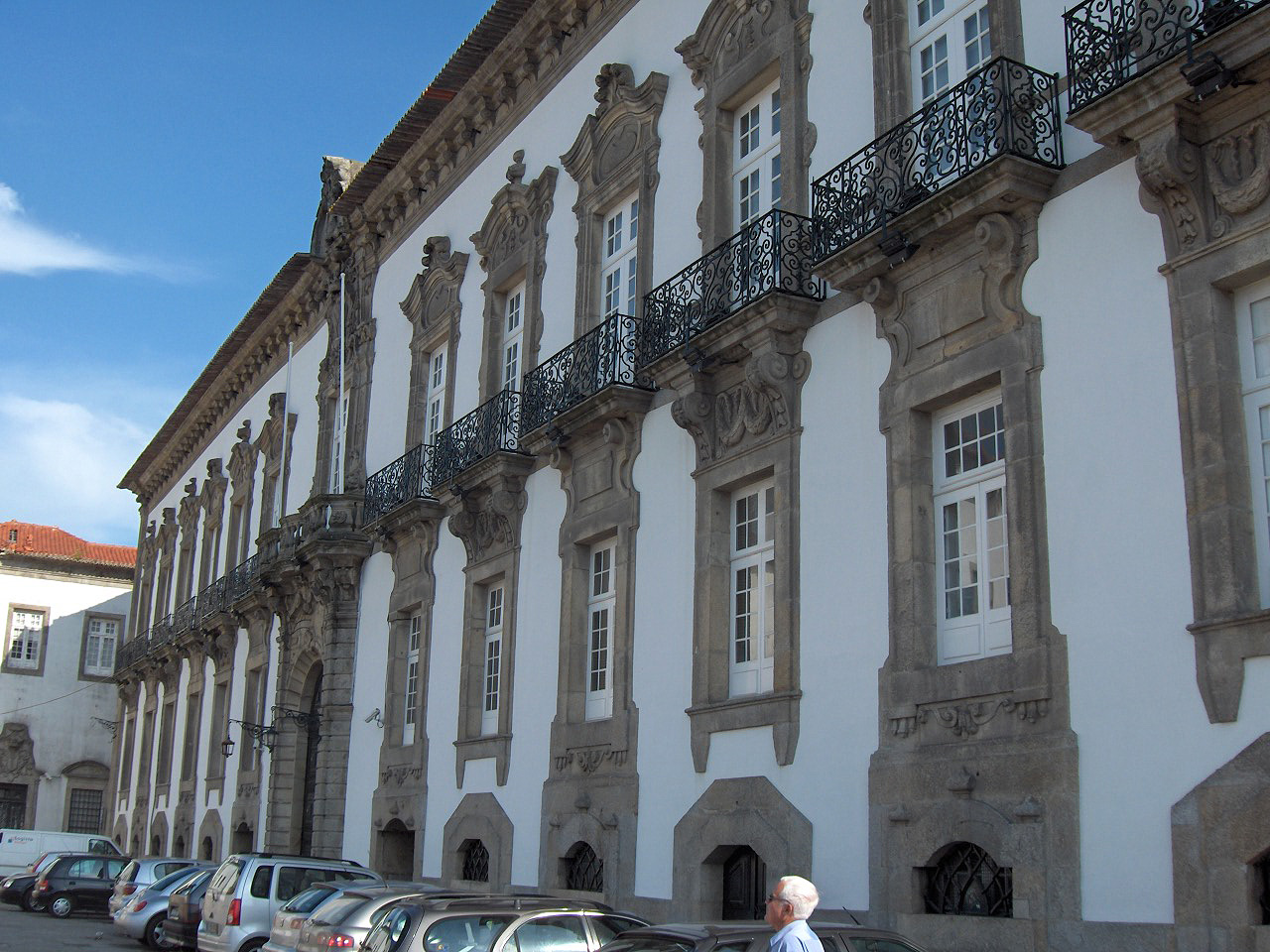 Former episcopal palace (18th c.) next to the cathedral of Porto, Portugal